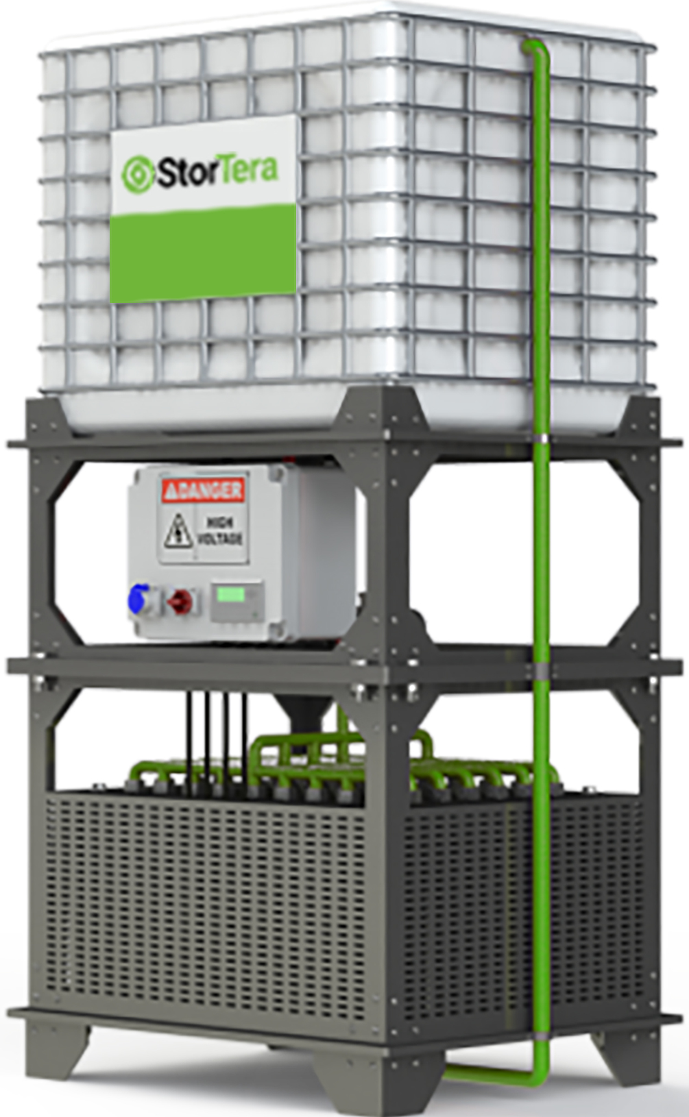 SLIQ Battery Invented By Pasidu Pallawela